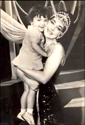 Ambar La Fox y su hja Reina Reech